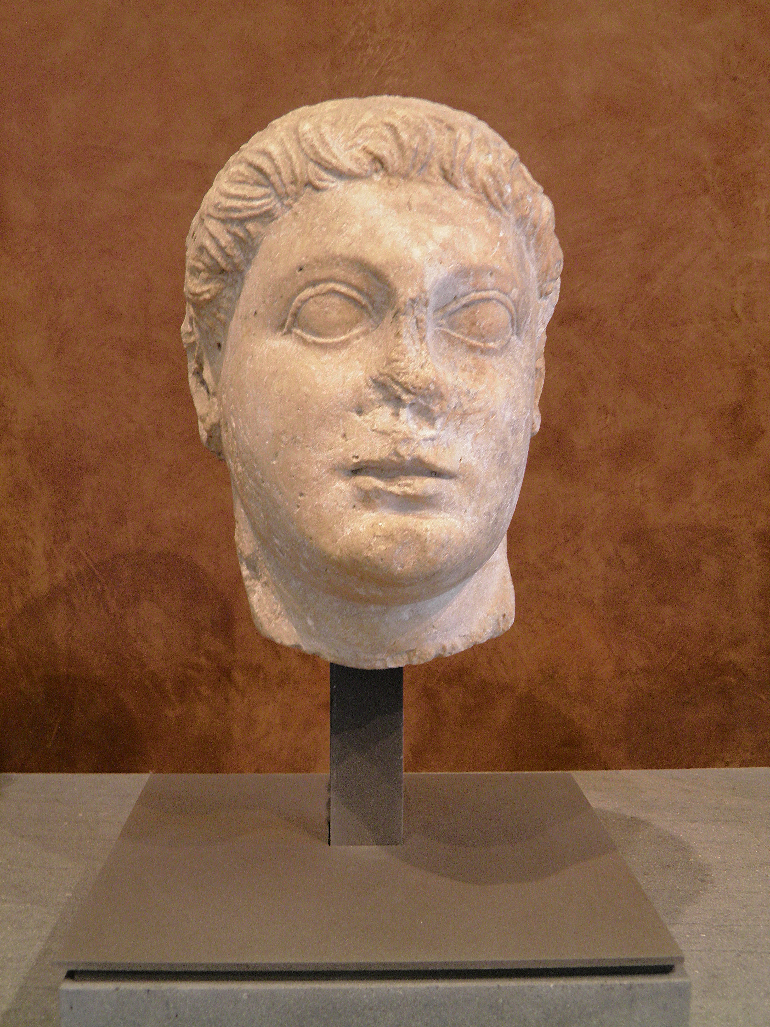 Ptolemy II Philadelphus (Greek: Πτολεμαῖος Φιλάδελφος, Ptolemaîos Philádelphos" 309 BCE – 246 BCE) was the king of Ptolemaic Egypt from 283 BCE to 246 BCE. He was the son of the founder of the Ptolemaic kingdom Ptolemy I Soter and Berenice, and was educated by Philitas of Cos. He had two half-brothers, Ptolemy Keraunos and Meleager, both of whom became kings of Macedonia (in 281 BCE and 279 BCE respectively). Both died in the Gallic invasion of 280–279 BCE (see Brennus). Ptolemy II erected a commemorative stele, the Great Mendes Stela. Ptolemies III through V also erected steles.